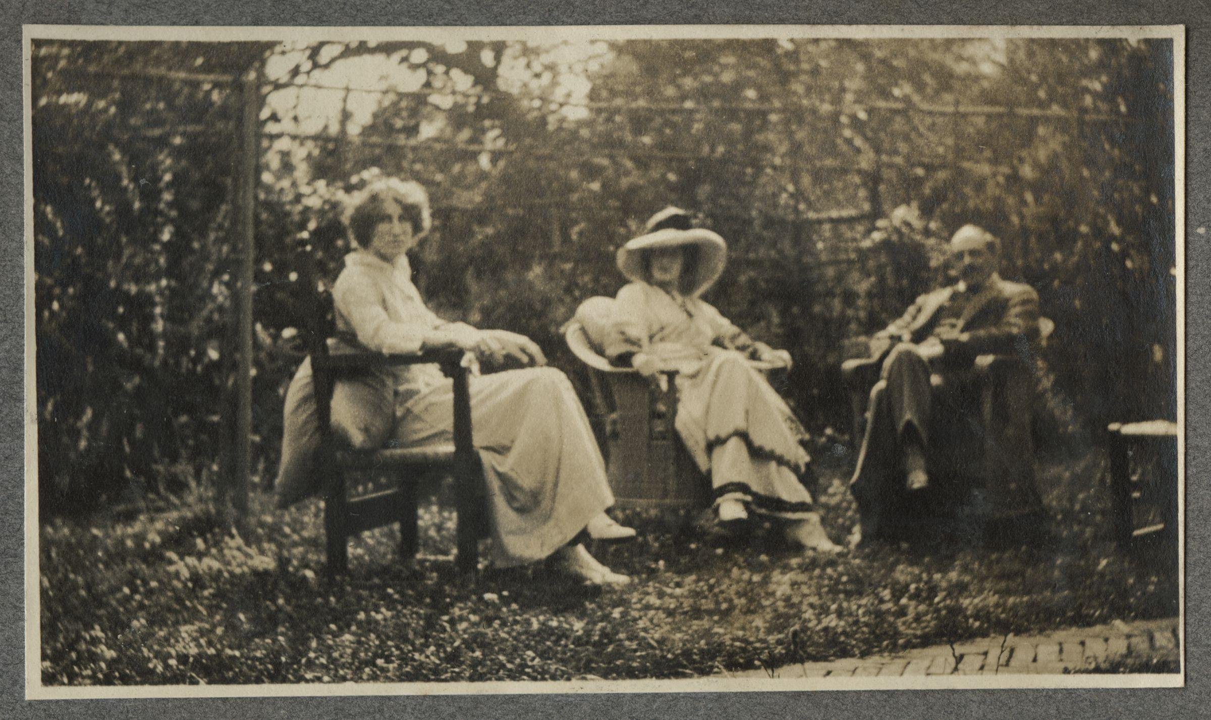 Helen Violet Bonham Carter, Baroness Asquith; Lady Ottoline Morrell; unknown man, by unknown artist. All images in this batch have an unknown author, but there is strong evidence it was first published before 1923 (based mainly on the NPG's estimated date of the work).